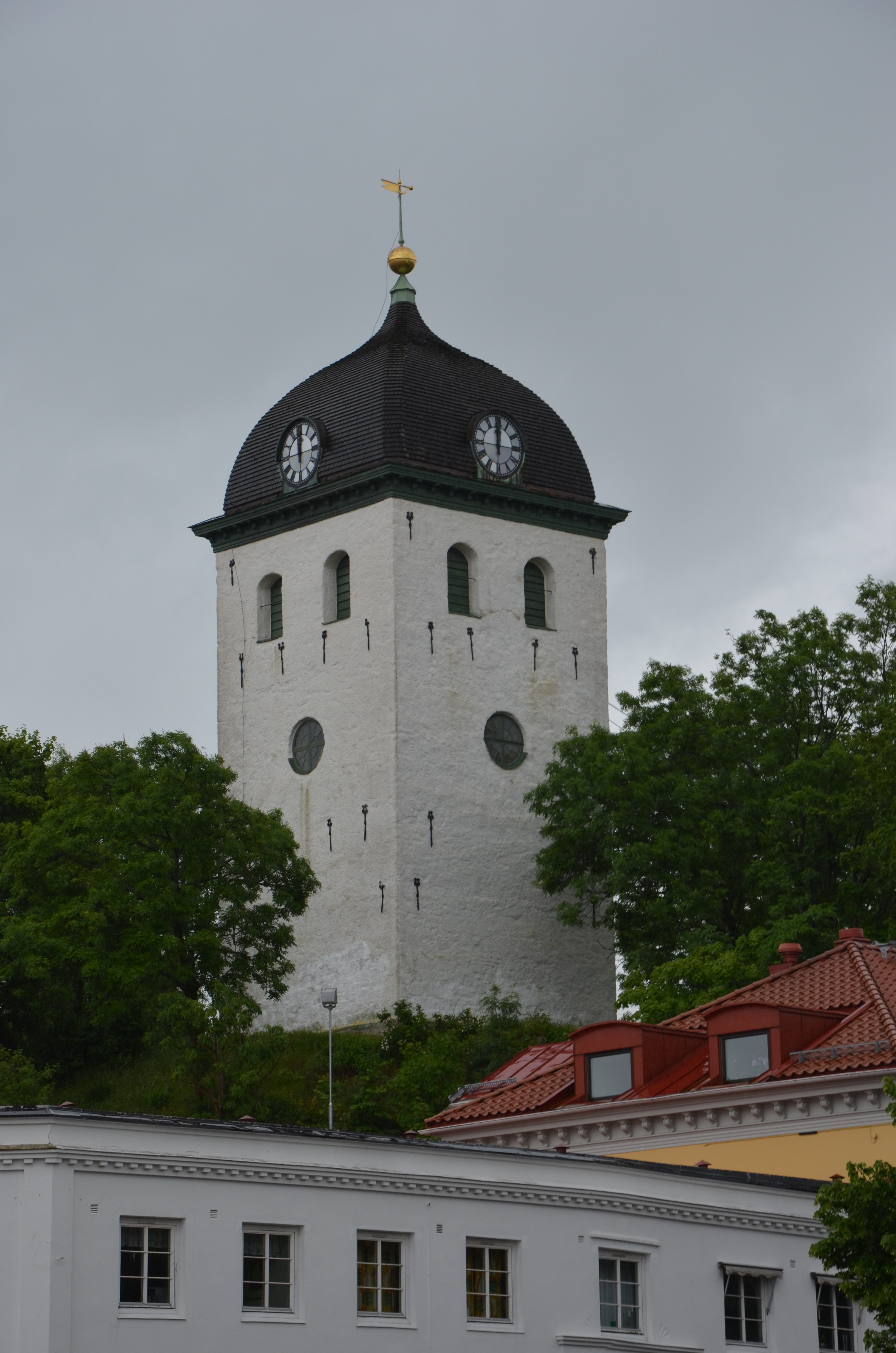 Clocktower of Uddevallakyrka at Agneberget, Uddevalla